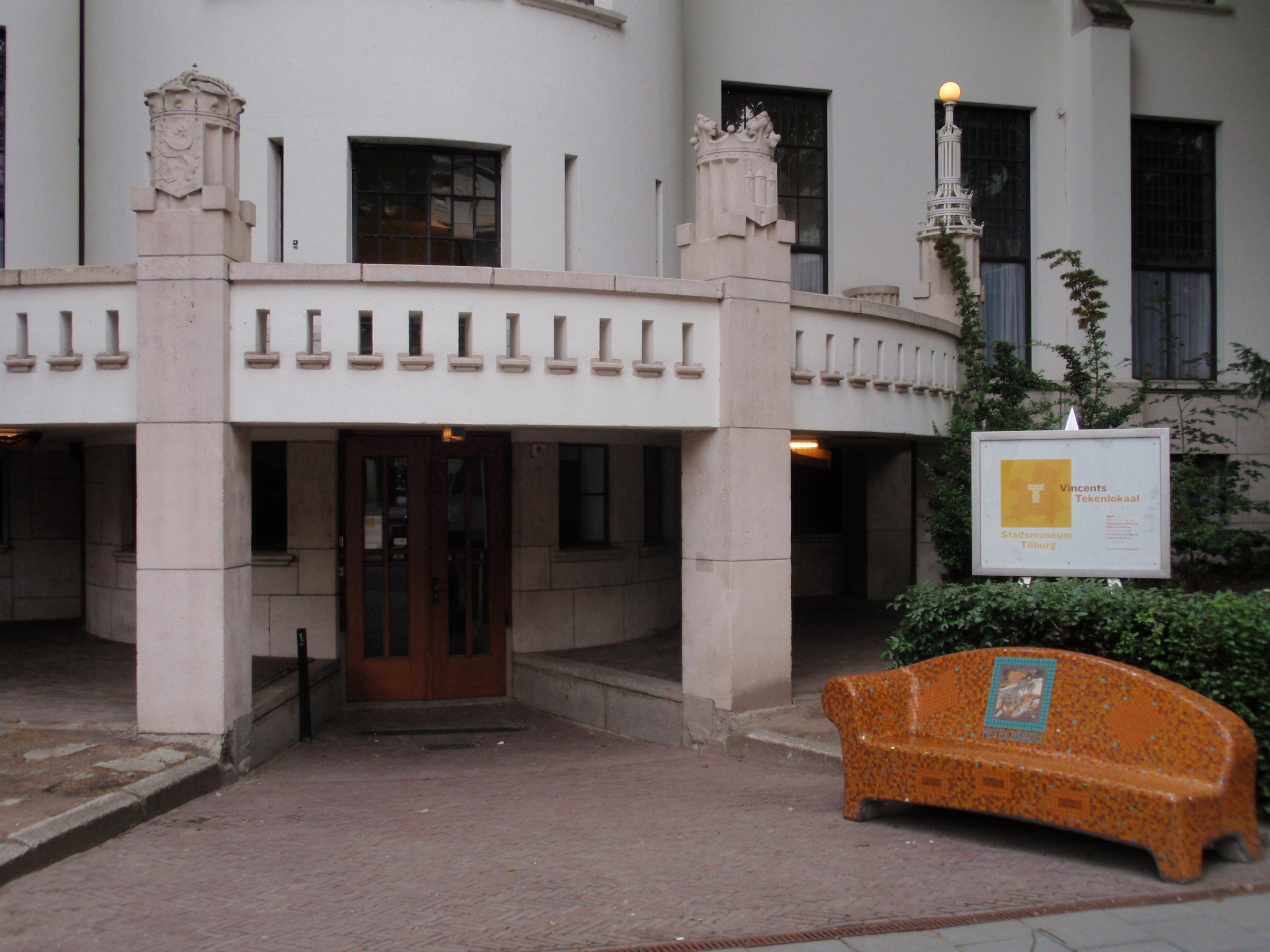 Vincents tekenlokaal (Van Gogh), Tilburg